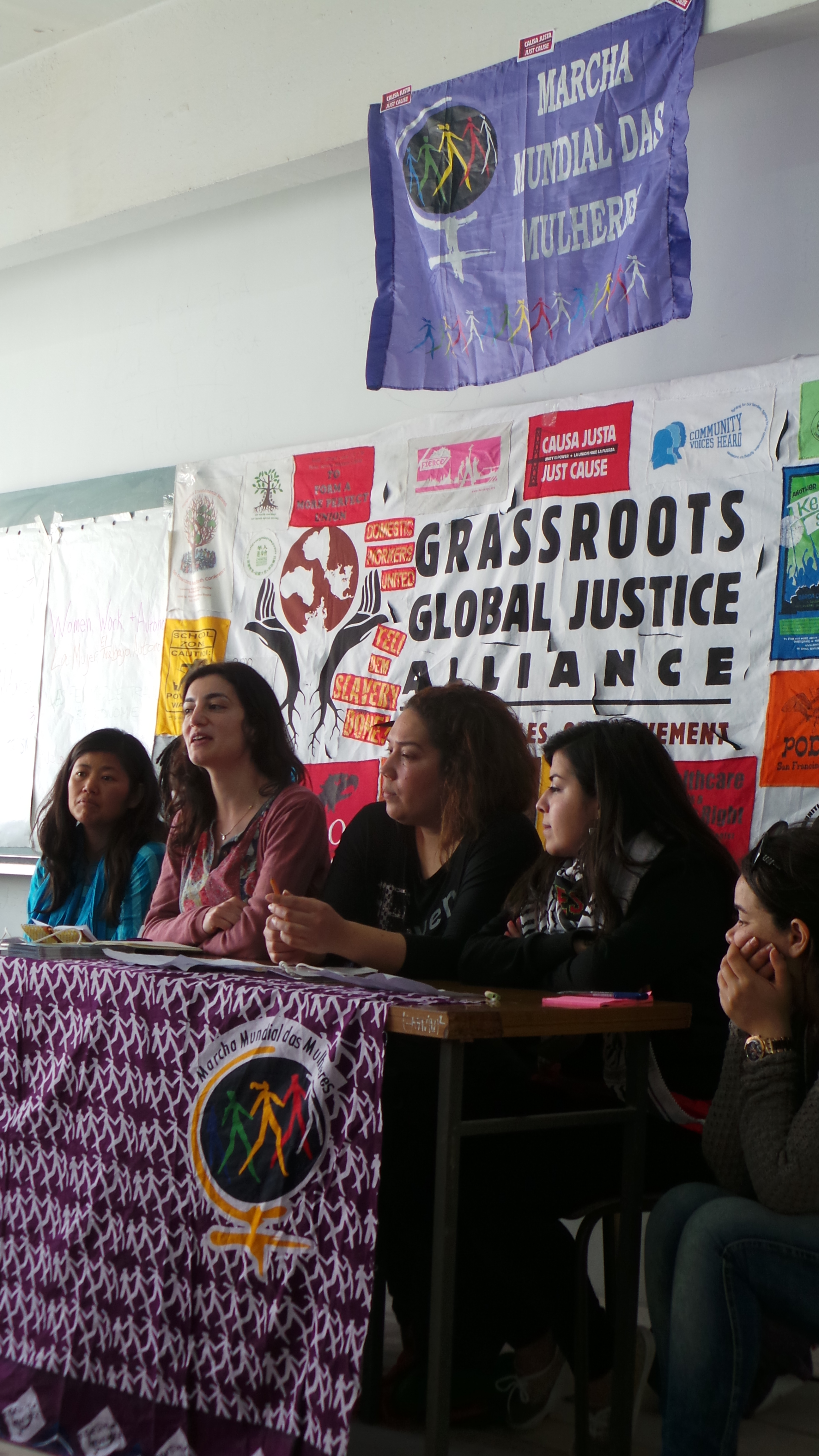 Meeting of the World March of Women in the World Social Forum Tunisia 2015. Participants of Palestine, Kurdistan, Africa and Asia